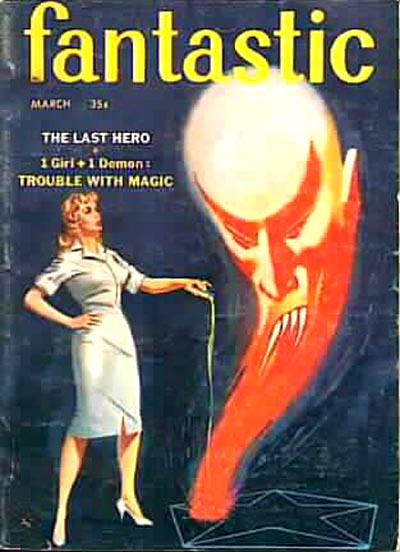 Cover of Fantastic, March 1959